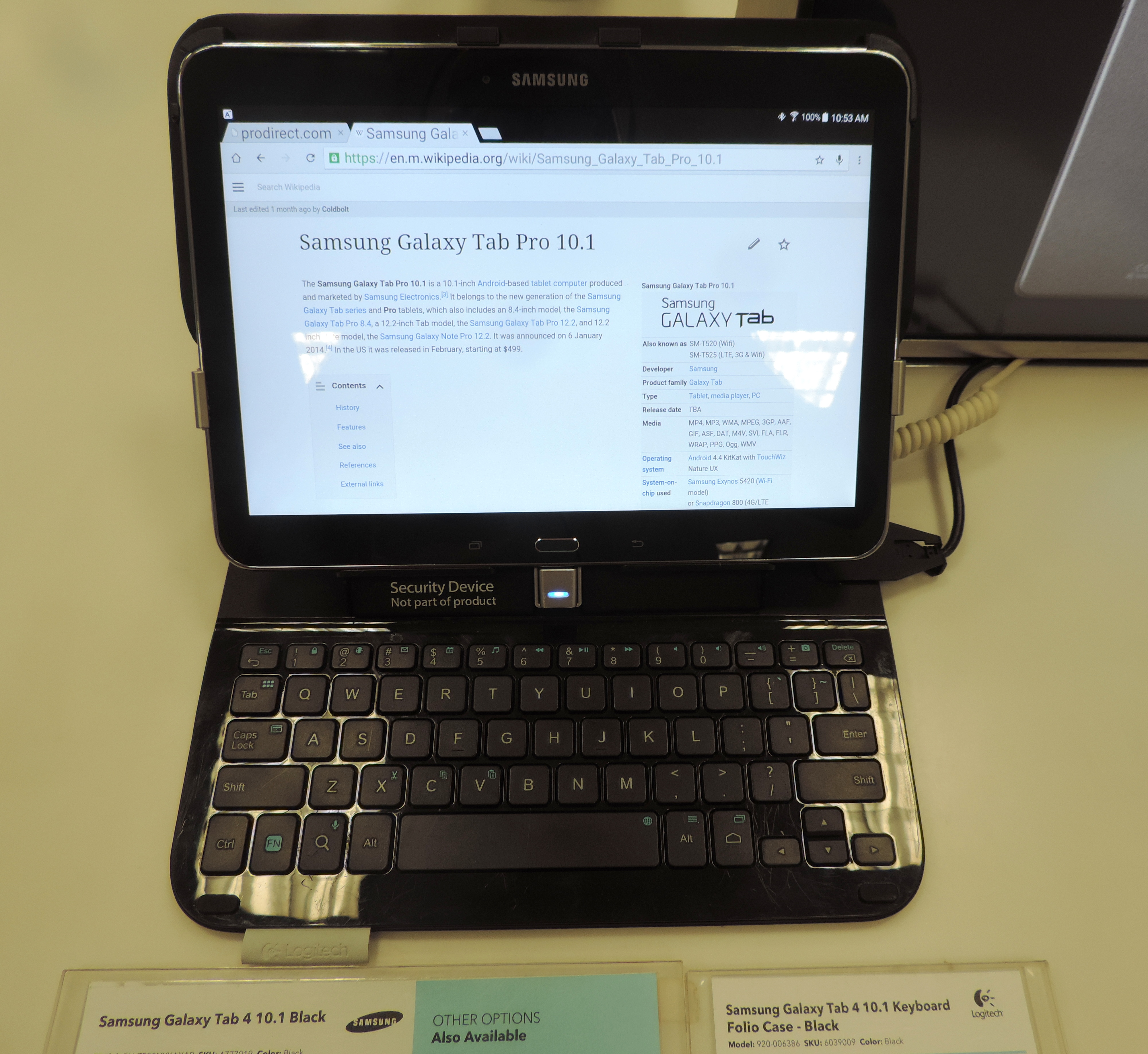 Samsung Tab 4 on display at Best Buy